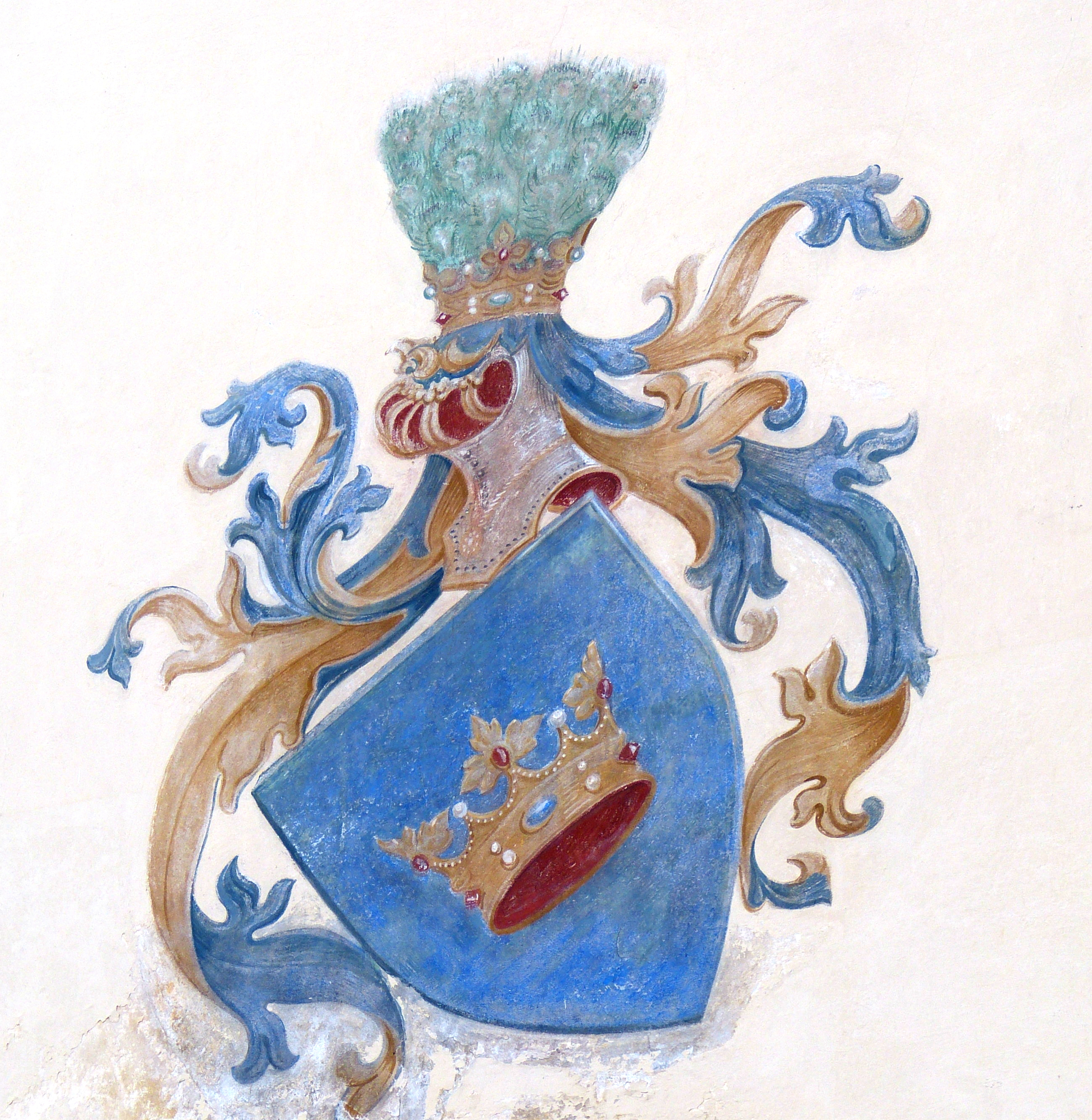 Gmunden ( Upper Austria ). Landschloss Ort - Inner courtyard: Coats of arms of former owners of the castle - Coats of arms of Scherffenberg family.